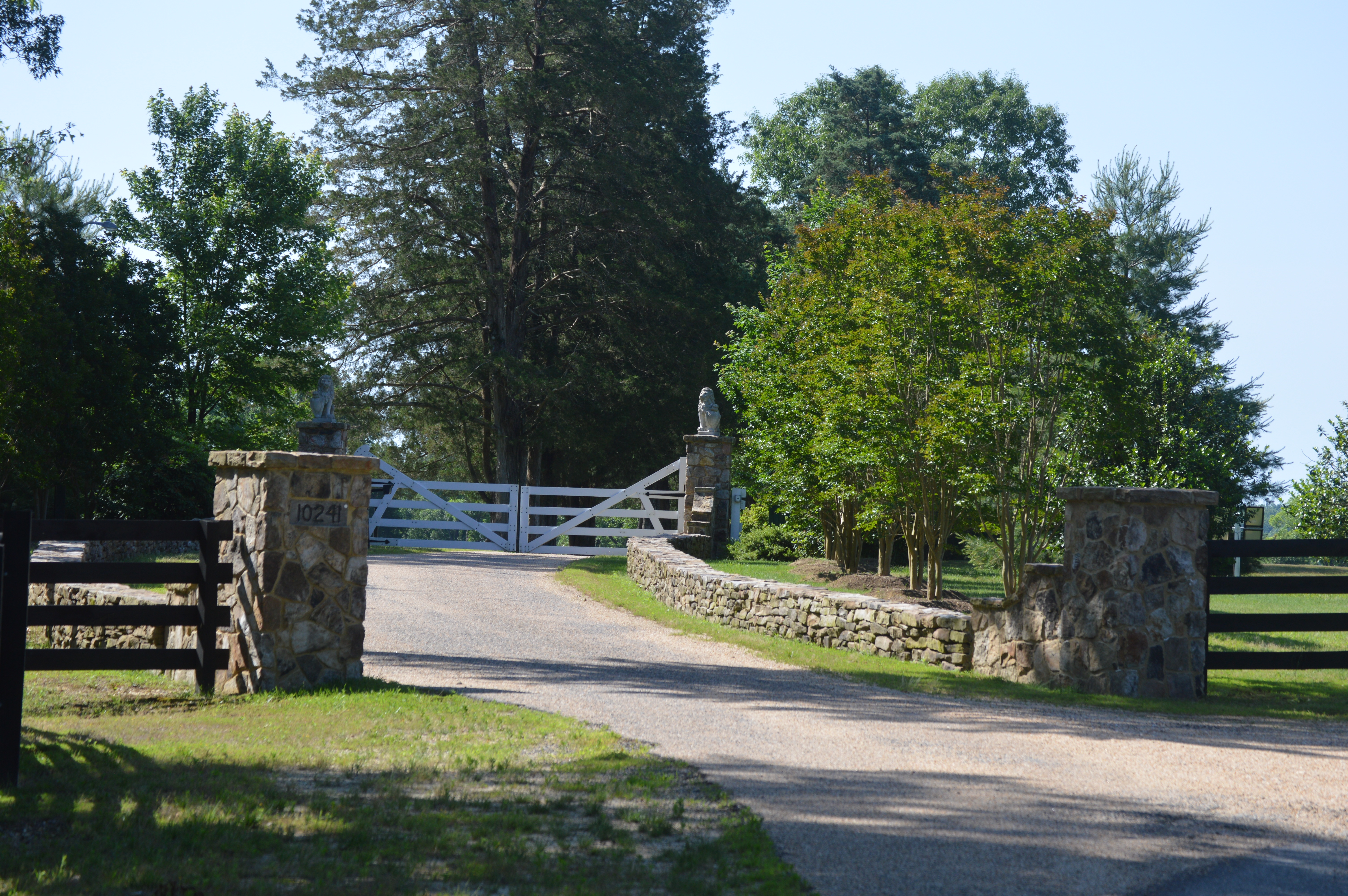 Entrance to the Edge Hill estate, located off Edgehill Academy Road northeast of Welchs in Caroline County, Virginia, United States. The estate is listed on the National Register of Historic Places.